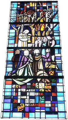 Staimed glass window of the Saint-Louis-du-Champ-des-Martyrs of Avrillé, presenting an illegal mass conducted by Guillaume Repin